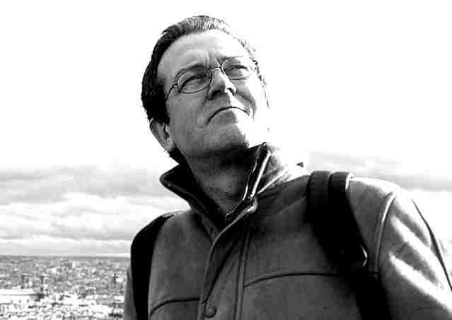 Robin Owain